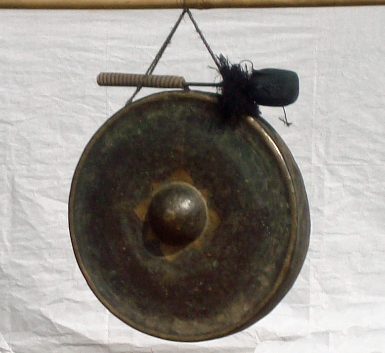 A traditional musical instrument of the Biate tribe, N.C.Hills,Assam, India.